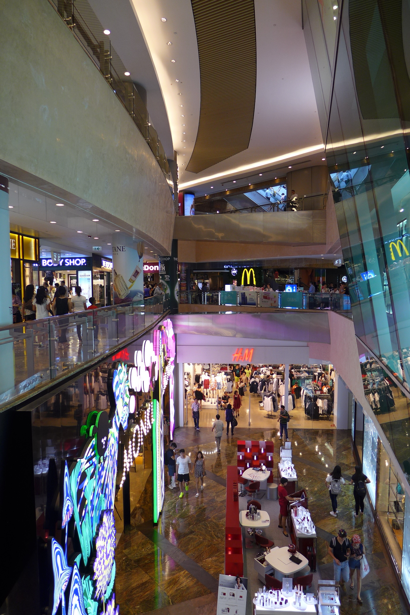 Langham Place Level 1-2 Void